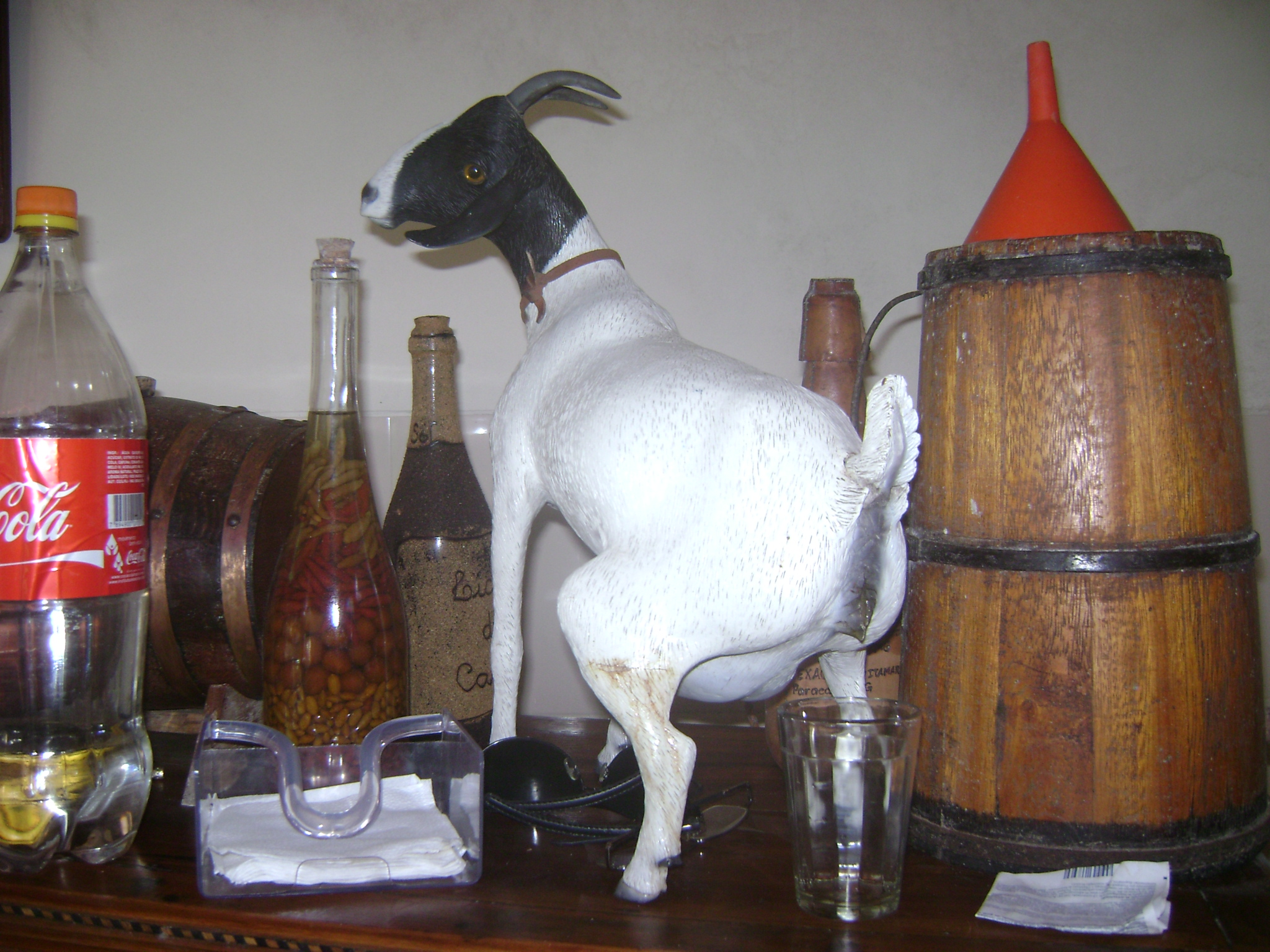 Container for storage of cachaça (the goat in the center of the image). The drink is dispensed from the goats rear by pulling down the tail. It is refilled from the horns.